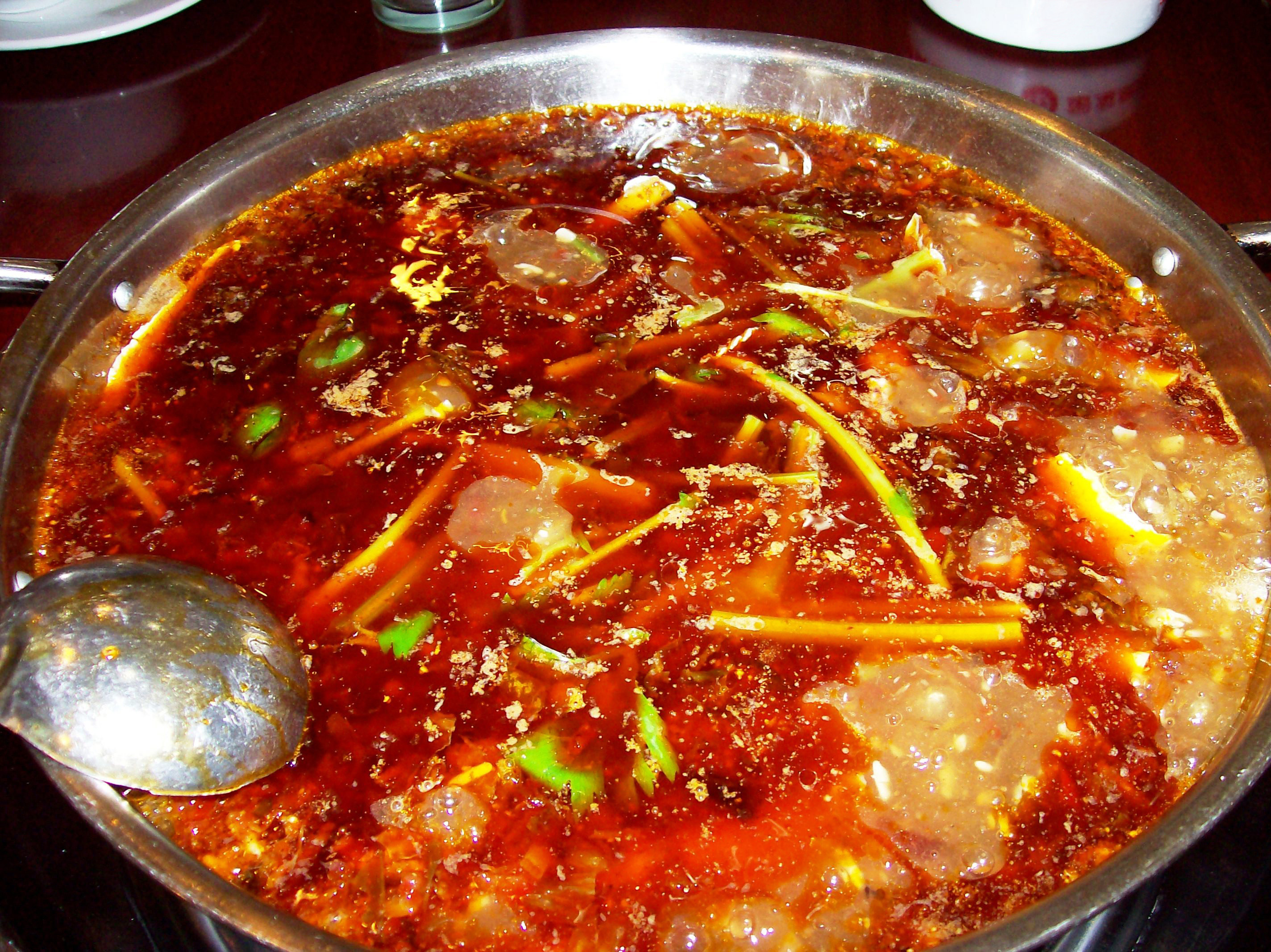 重庆火锅. Chongqing hotpot, a Szechuan version of the Chinese Hot pot